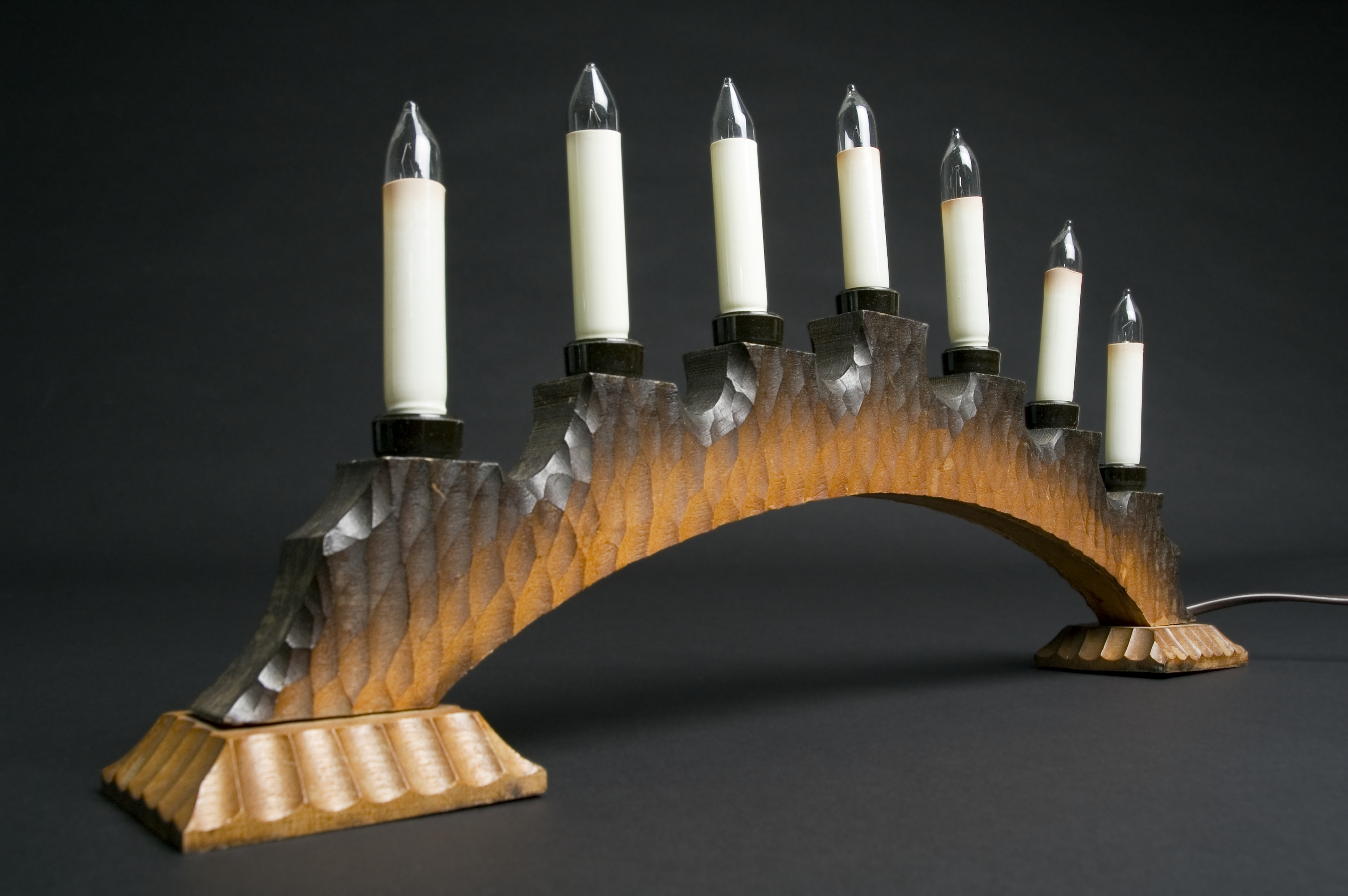 Electric Avent candle holder, first model, from 1939. Oscar Andersson at Philips in Sweden developed it and the company Sjölander in Värnamo made the wooden parts.